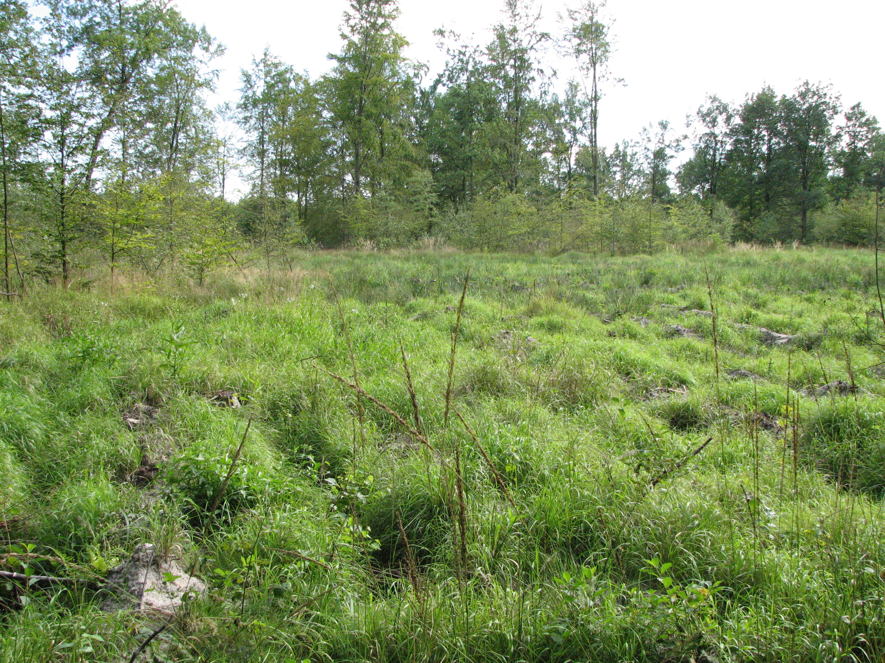 Panewniki's Forests in Katowice, Poland